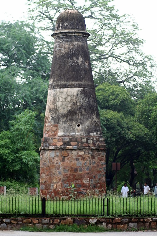 Kos Minar or Mughal Mile stone The Kos Minars or Mile Pillars are medieval milestones that were made by the Afghan Ruler Sher Shah Suri and later on by Mughal emperors. These Minars were erected by the Mughal Emperors on the main highways across the empire to mark the distance. The Kos Minar is a solid round pillar,around 30 feet in height that stands on a masonry platform built with bricks and plastered over with lime. Though not architecturally very impressive they were an important part of communication and travel in a large empire.